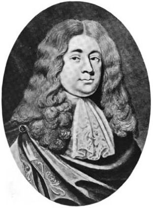 Portrait of Virginia settler Robert Bolling